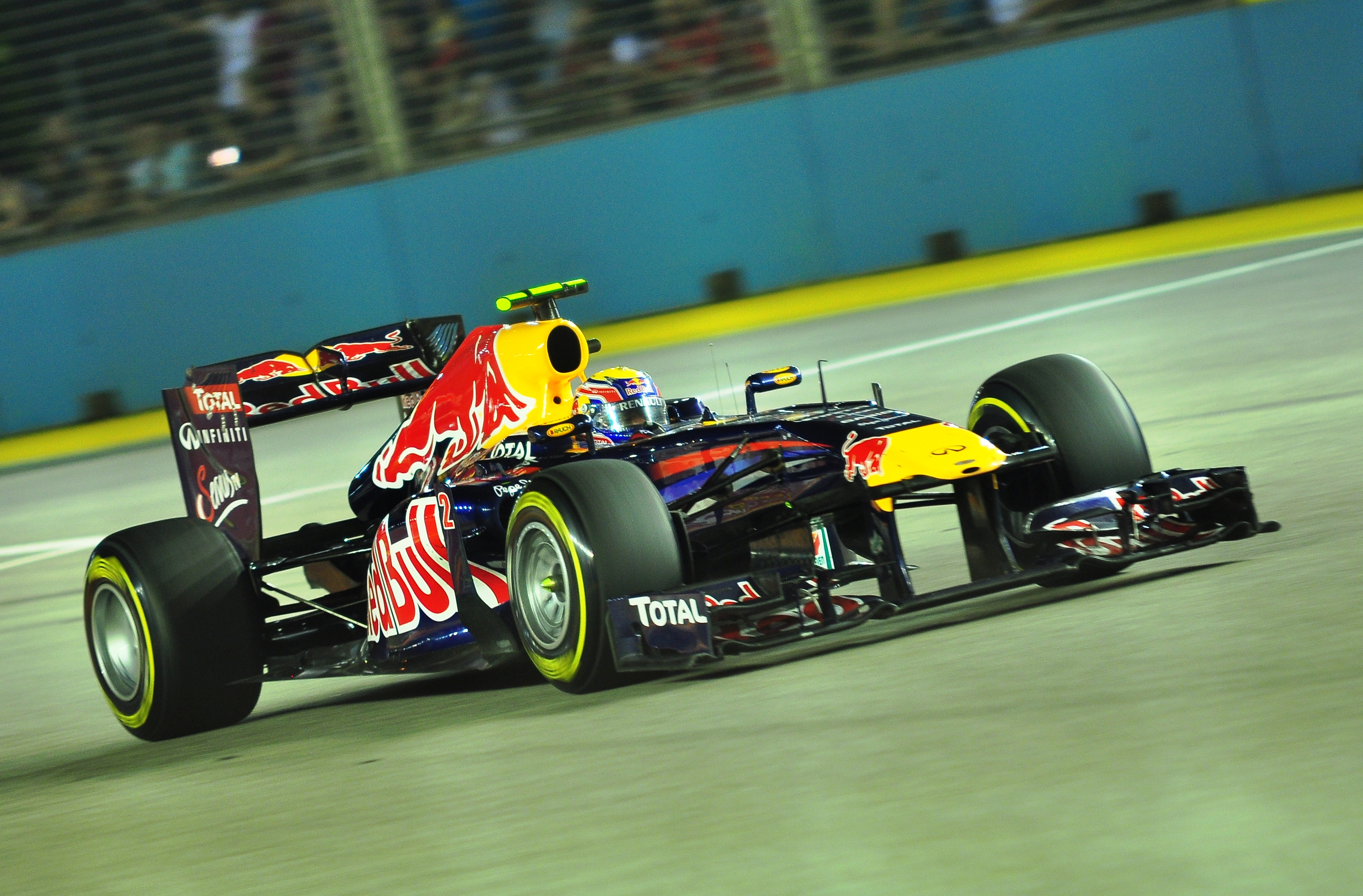 Mark Webber for Red Bull Racing rounds turn 2 at the 2011 Fomula 1 Singtel Singapore Grand Prix held at the Marina Bay Street Circuit.